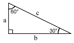 A diagram showing a 60°, 30°, 90° triangle in relation to a, b, and c in that a2 + b2 = c2